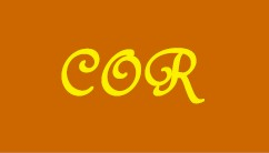 Purported flag of the 2nd Canadian Regiment during the American Revolutionary War. It is claimed that this is not the correct flag. That was white with black outlined letters COR in the center, the word LIBERTY in outlined black letters above, and a red banner with "2nd CANADIAN" in white below.